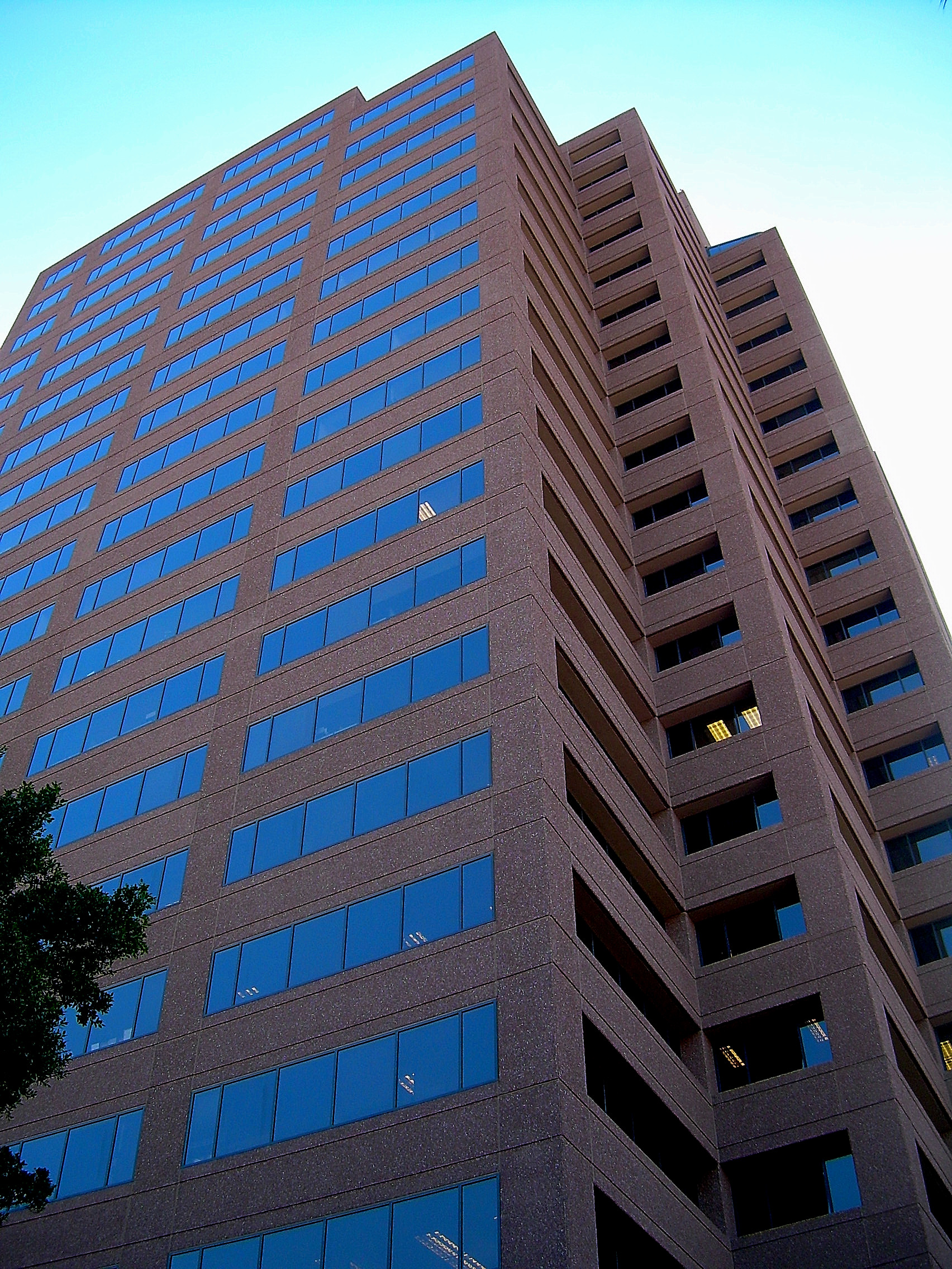 JCordova, self